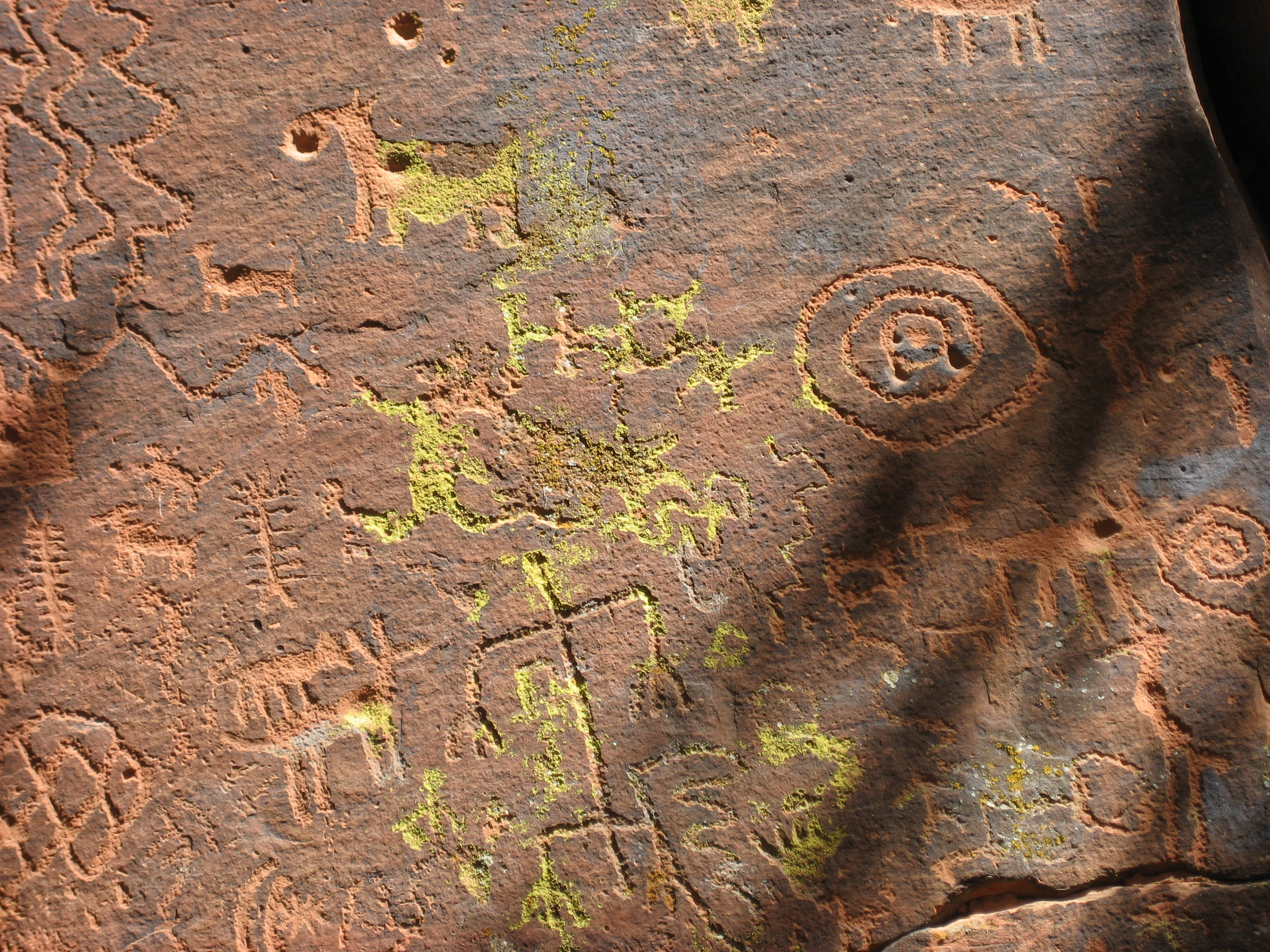 Petroglyphs at V-Bar-V Ranch, Arizona